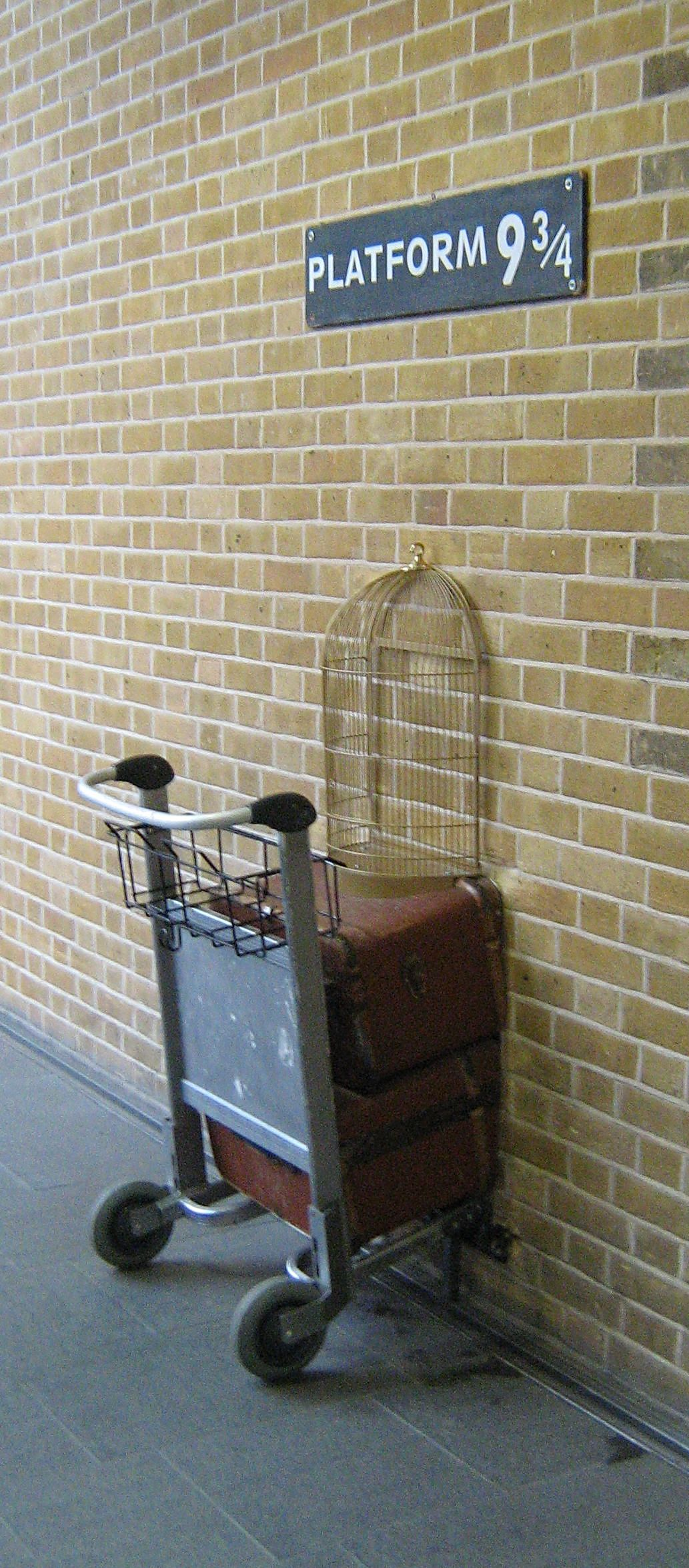 Harry Potter's trolley on Platform 9 3/4 at Londons King's Cross Station